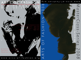 flyer for arts of fashion 2008